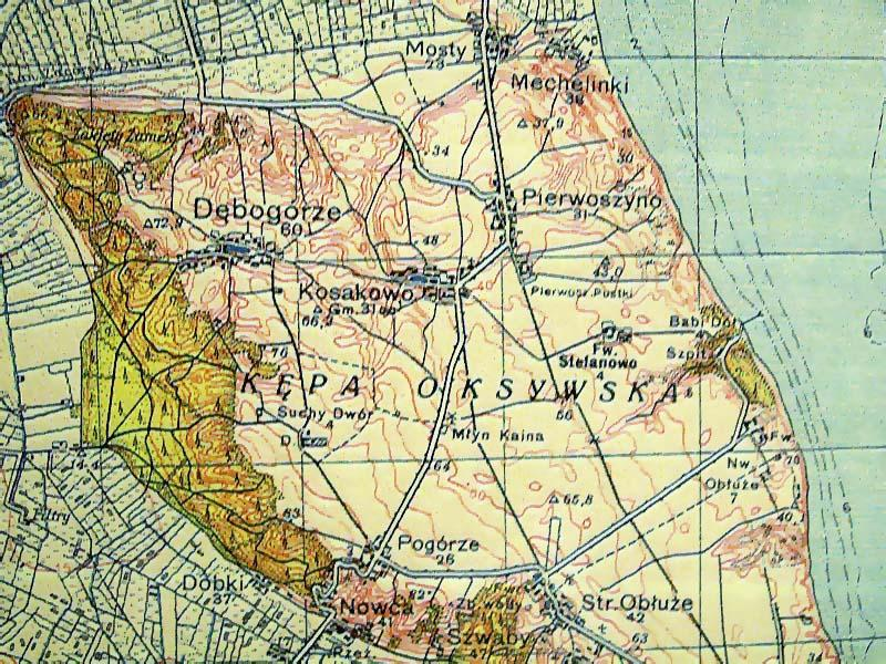 Part of Polish Army topographic map form 1930s.